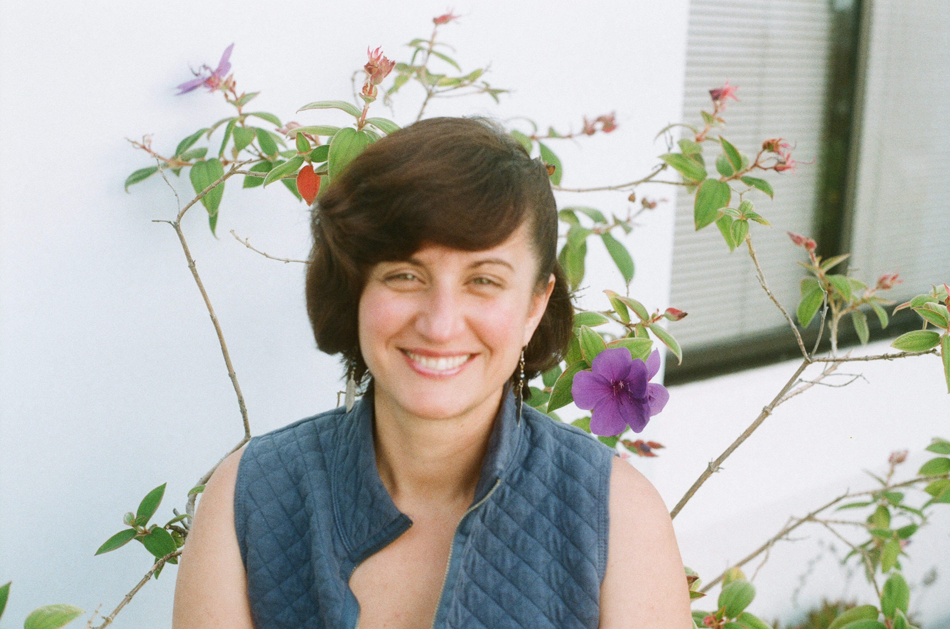 Prof. Zvezdelina Stankova